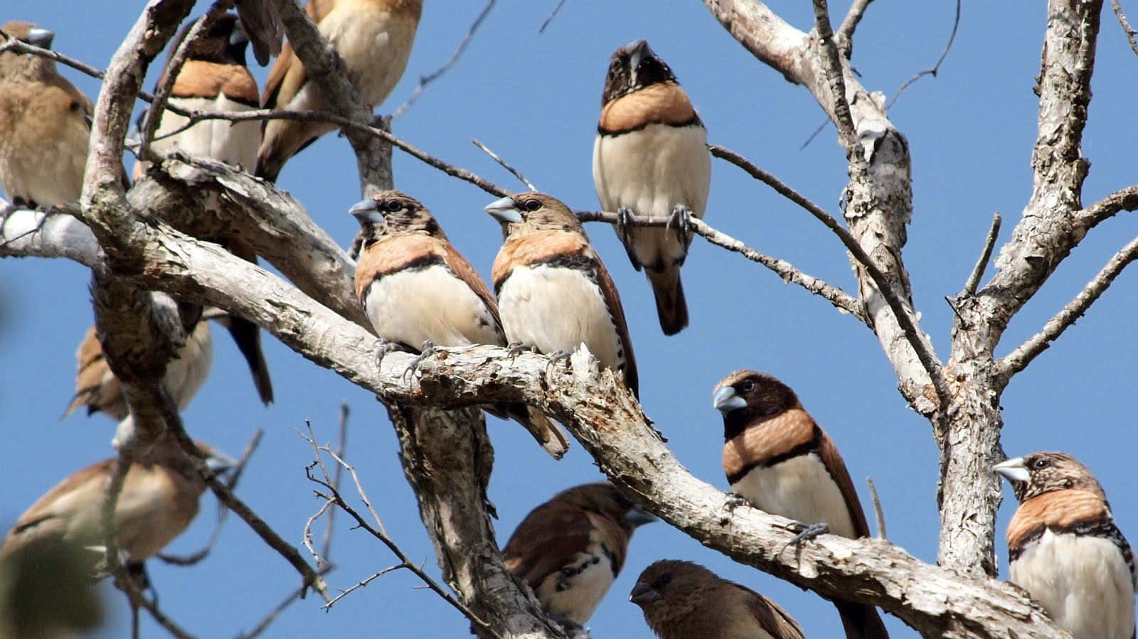 A flock of Chestnut-breasted Mannikins near Mareeba, Queensland, Australia.